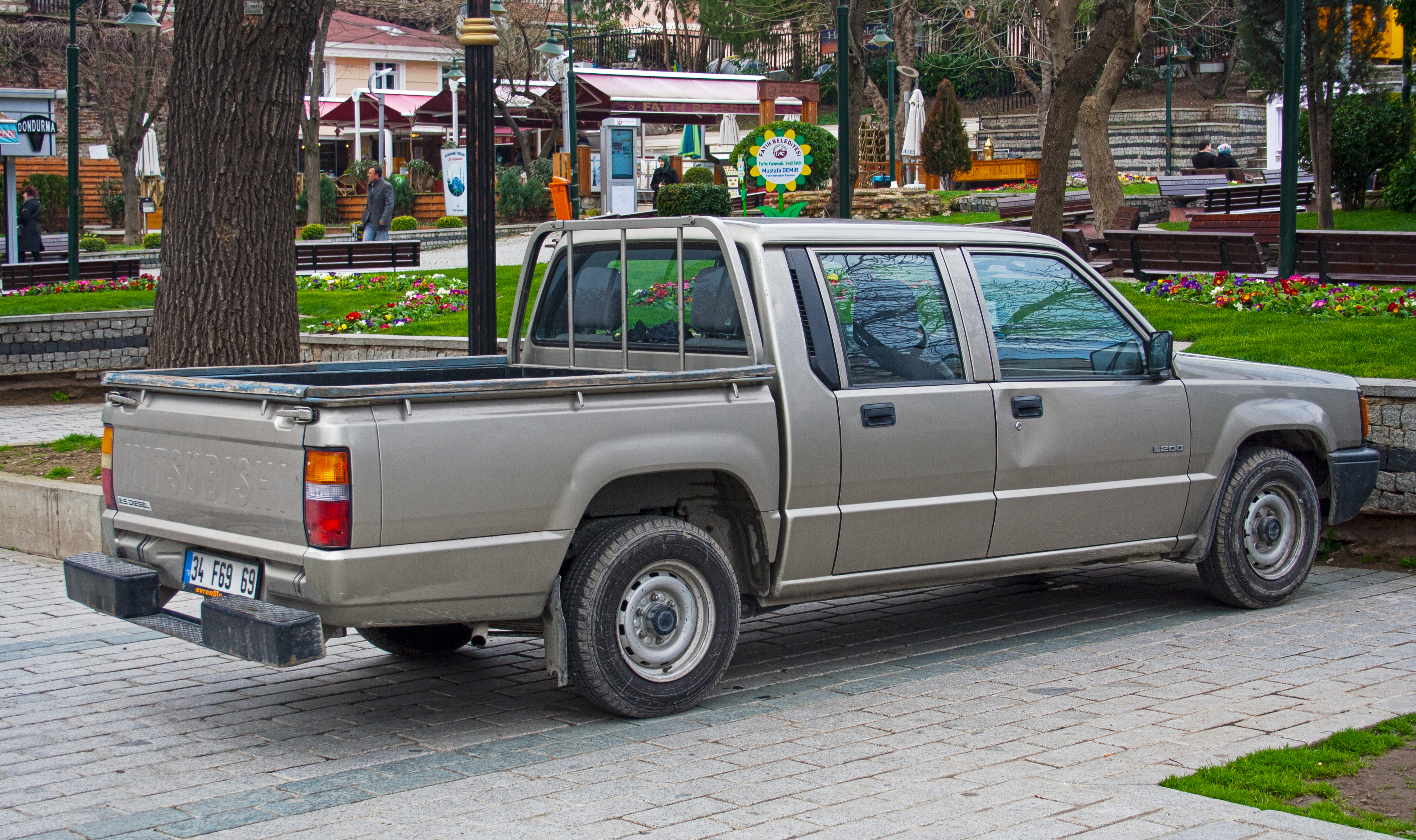 Crew cab Mitsubishi L200 (second generation) seen in Istanbul. This is a 2WD 2.5 diesel (naturally aspirated), a basic working truck.